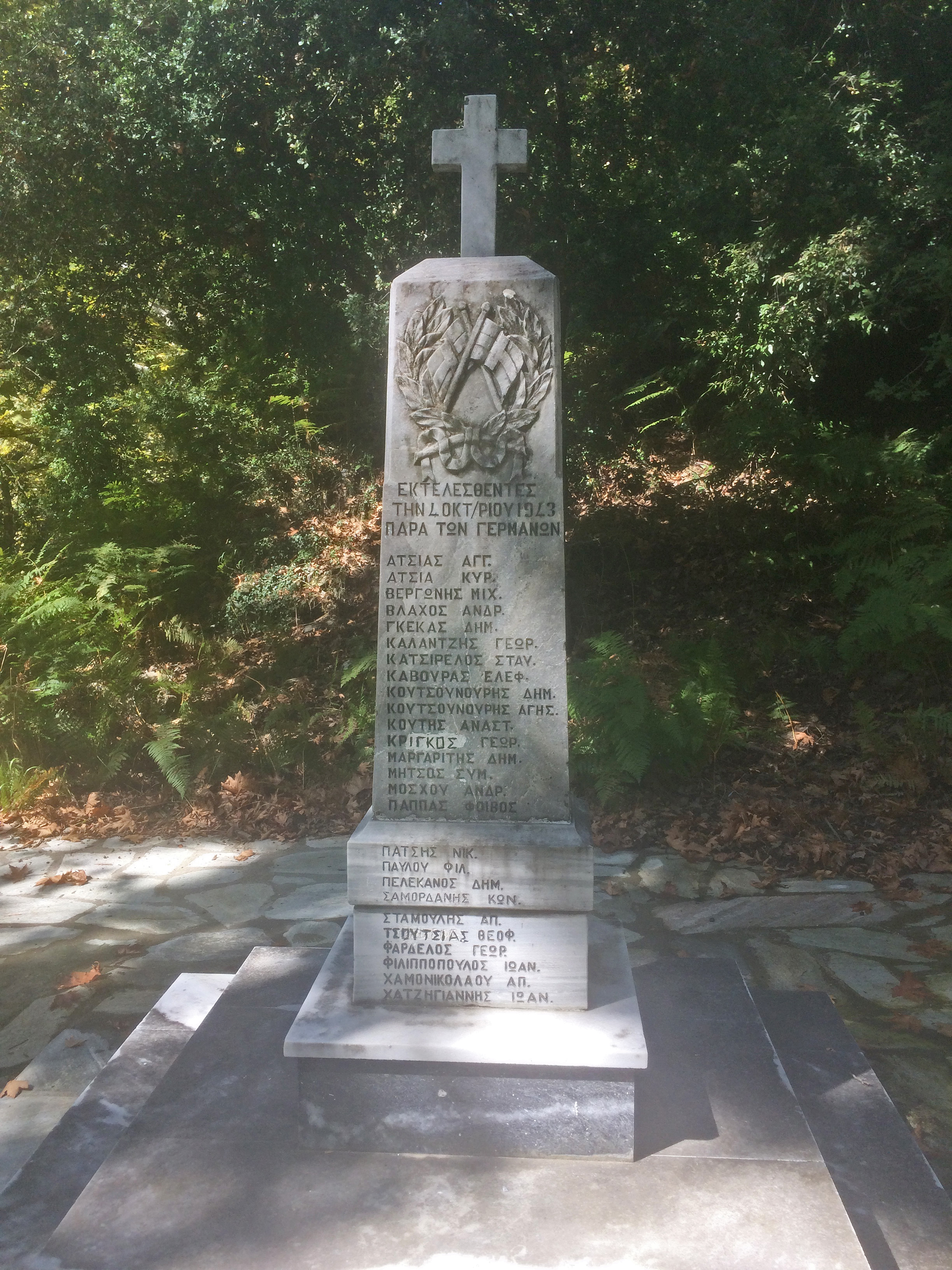 Memorial in Milies, a mountain village in the municipality South Pelion in the regional unit Magnisia in the region of Thessaly in Greece, for the people executed there by German occupation troops on October 4, 1943.